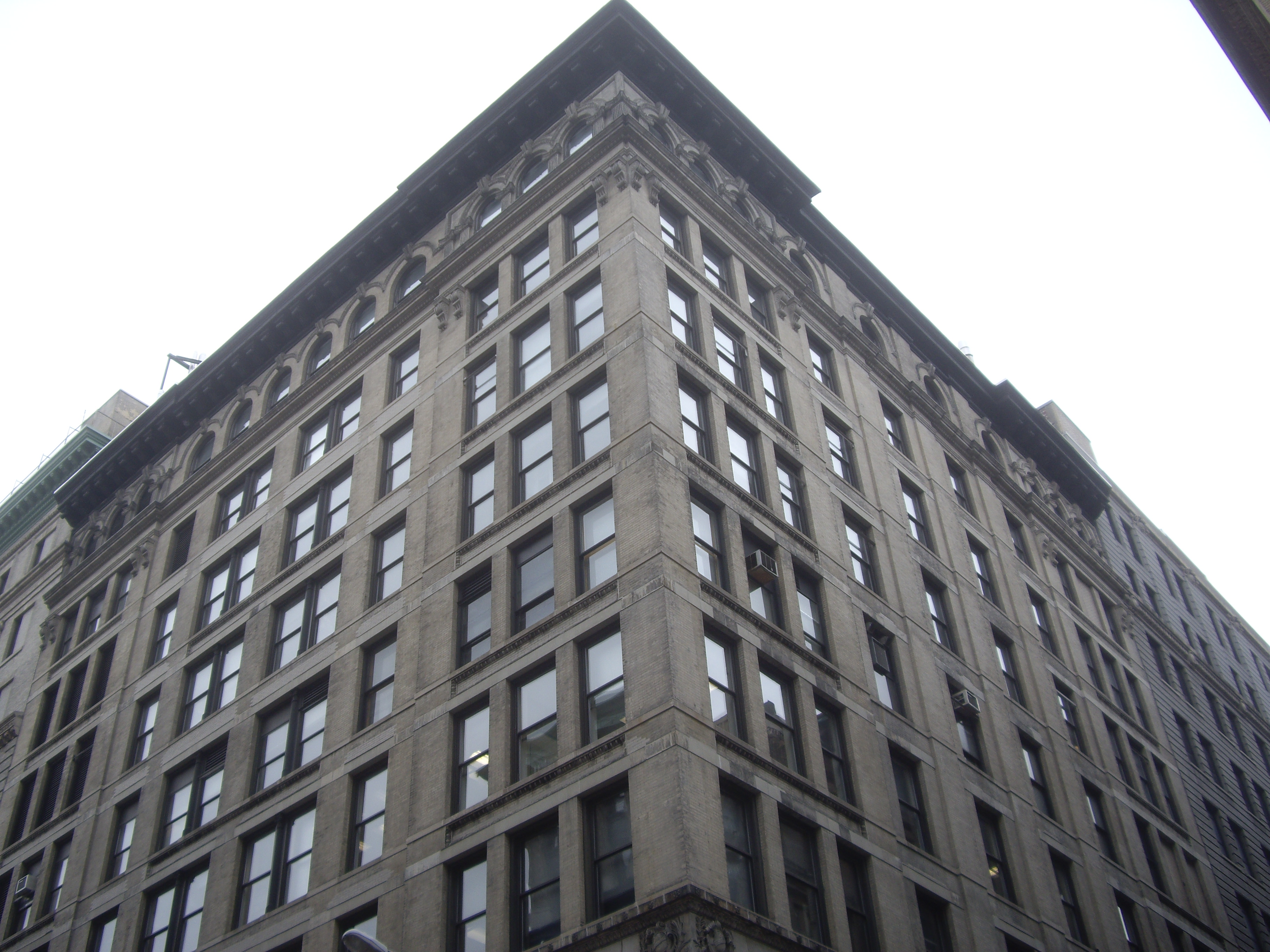 Asch/Brown Building, Triangle Shirtwaist Fire